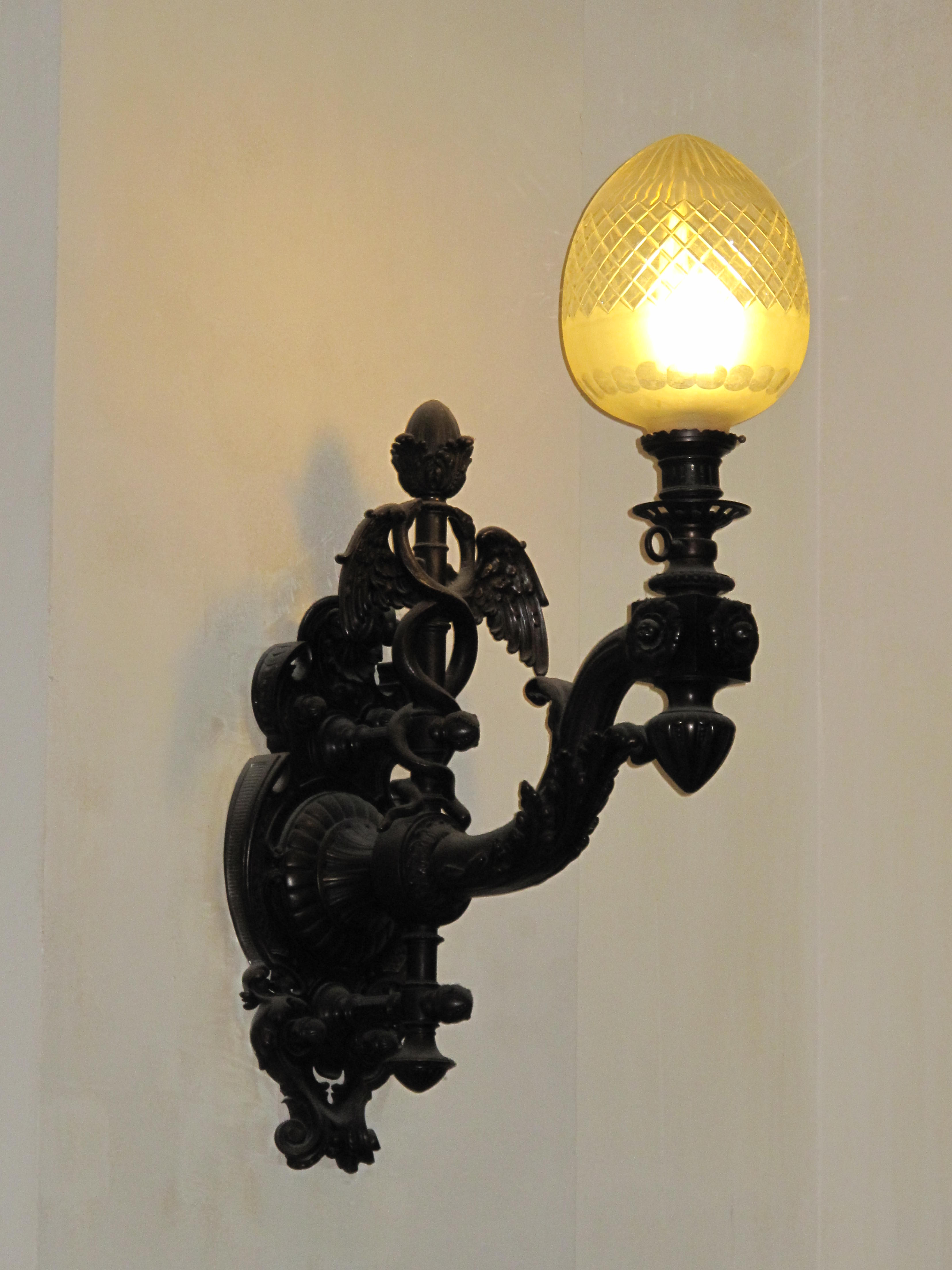 Detail of a candelabrum at the ground floor of the Credit Lyonnais Head Office : 19 Boulevard des Italiens, Paris 2nd arr.